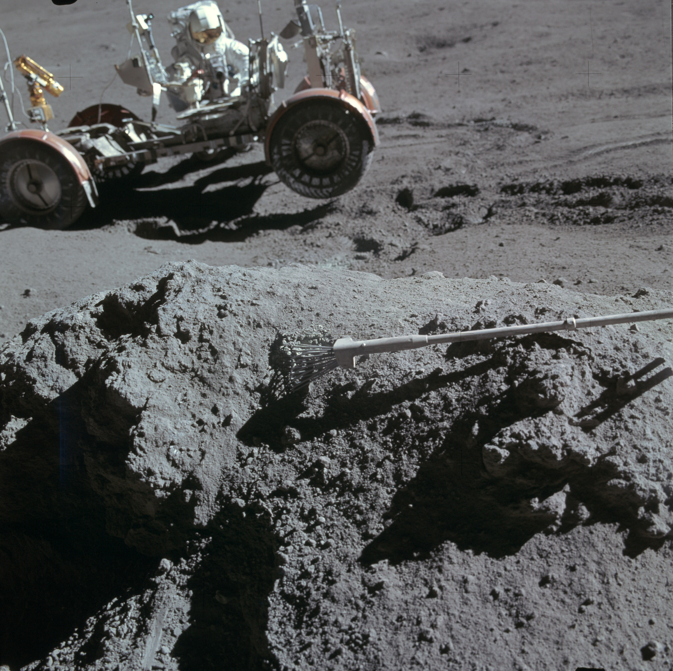 Apollo 15 LRV at station 6A taking samples from “the Green Boulder”. Jim Irwin is holding the LRV steady.